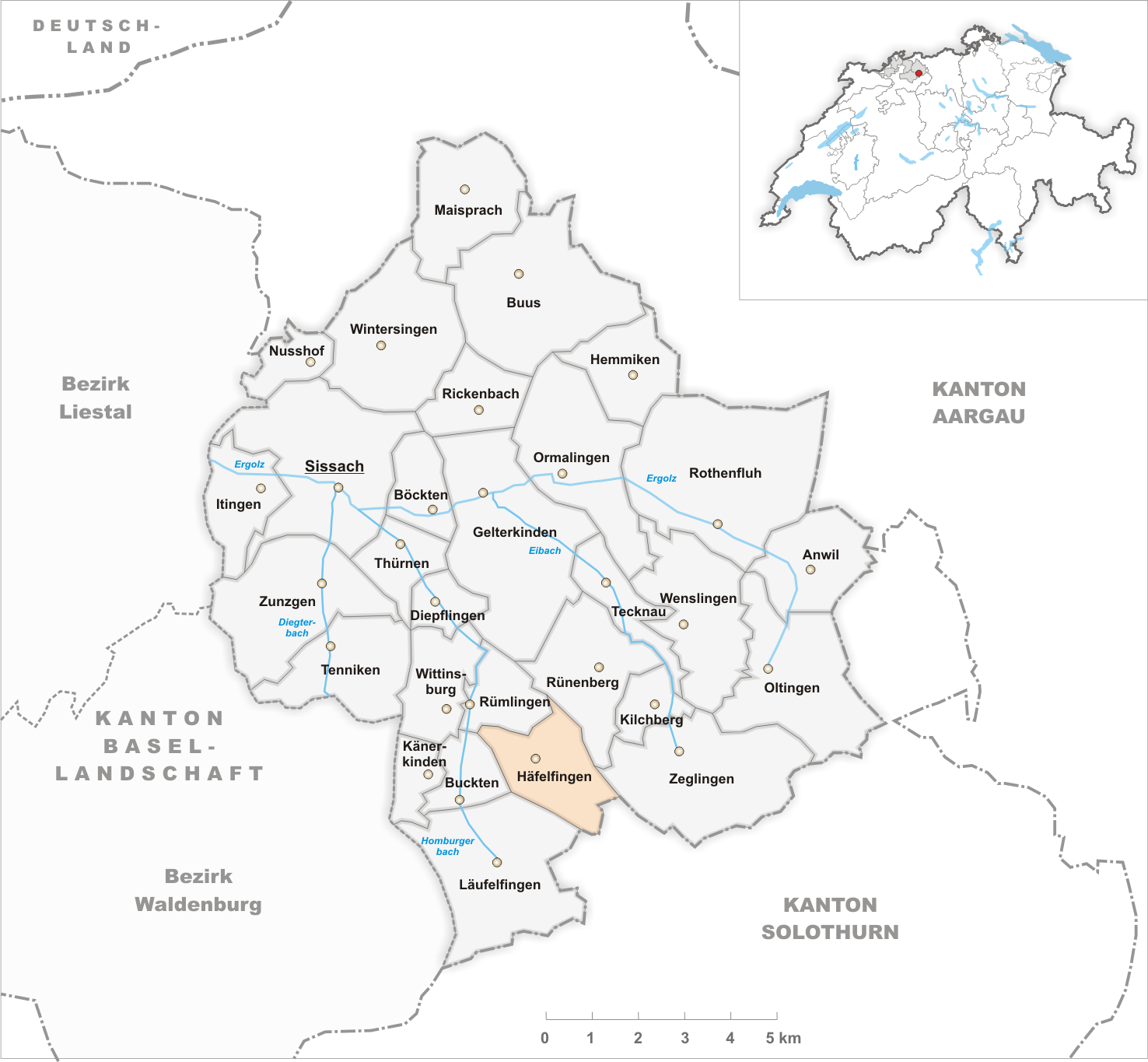 Municipality Häfelfingen